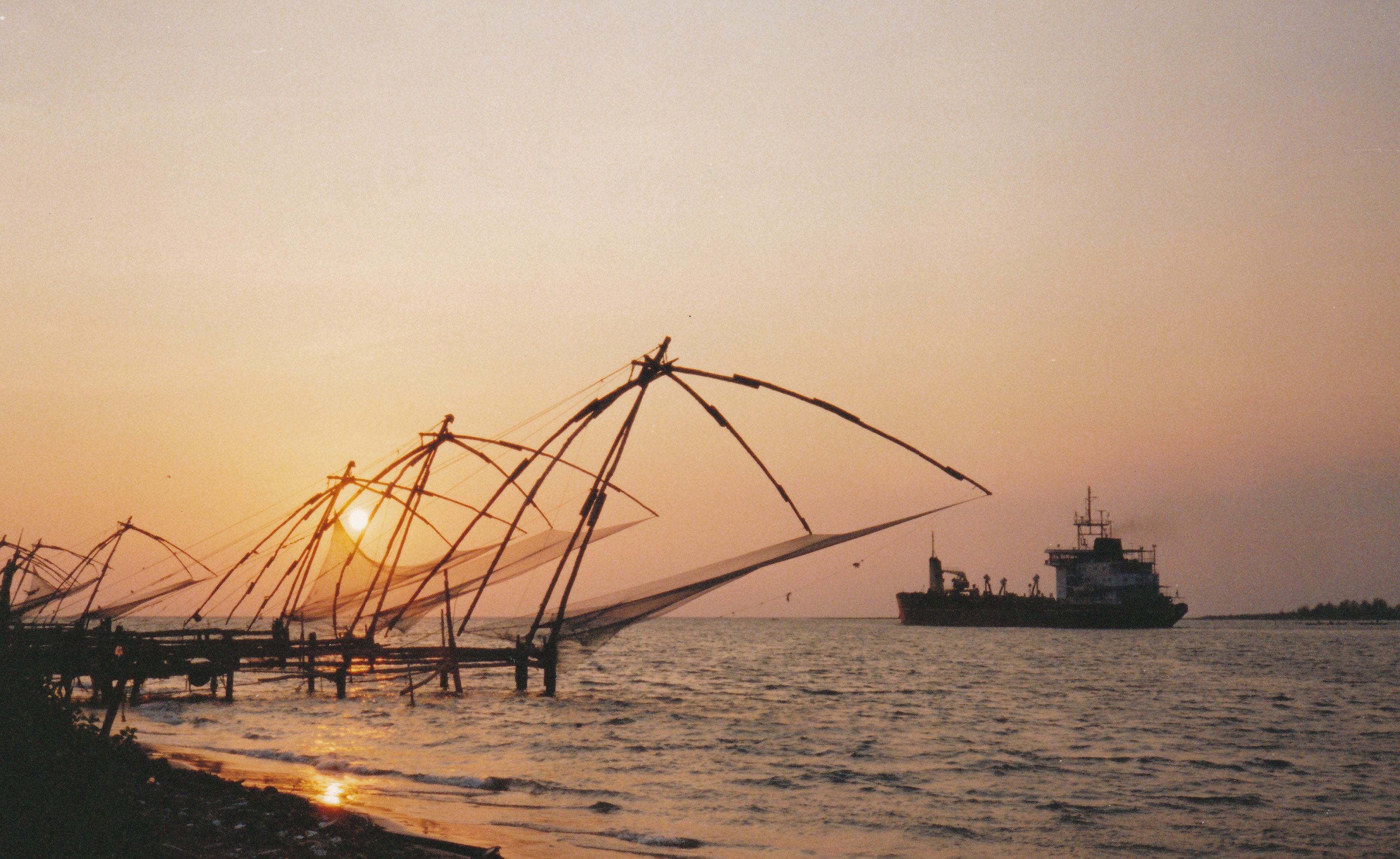 Chinese fishingnets in Kochi (Kerala-India)